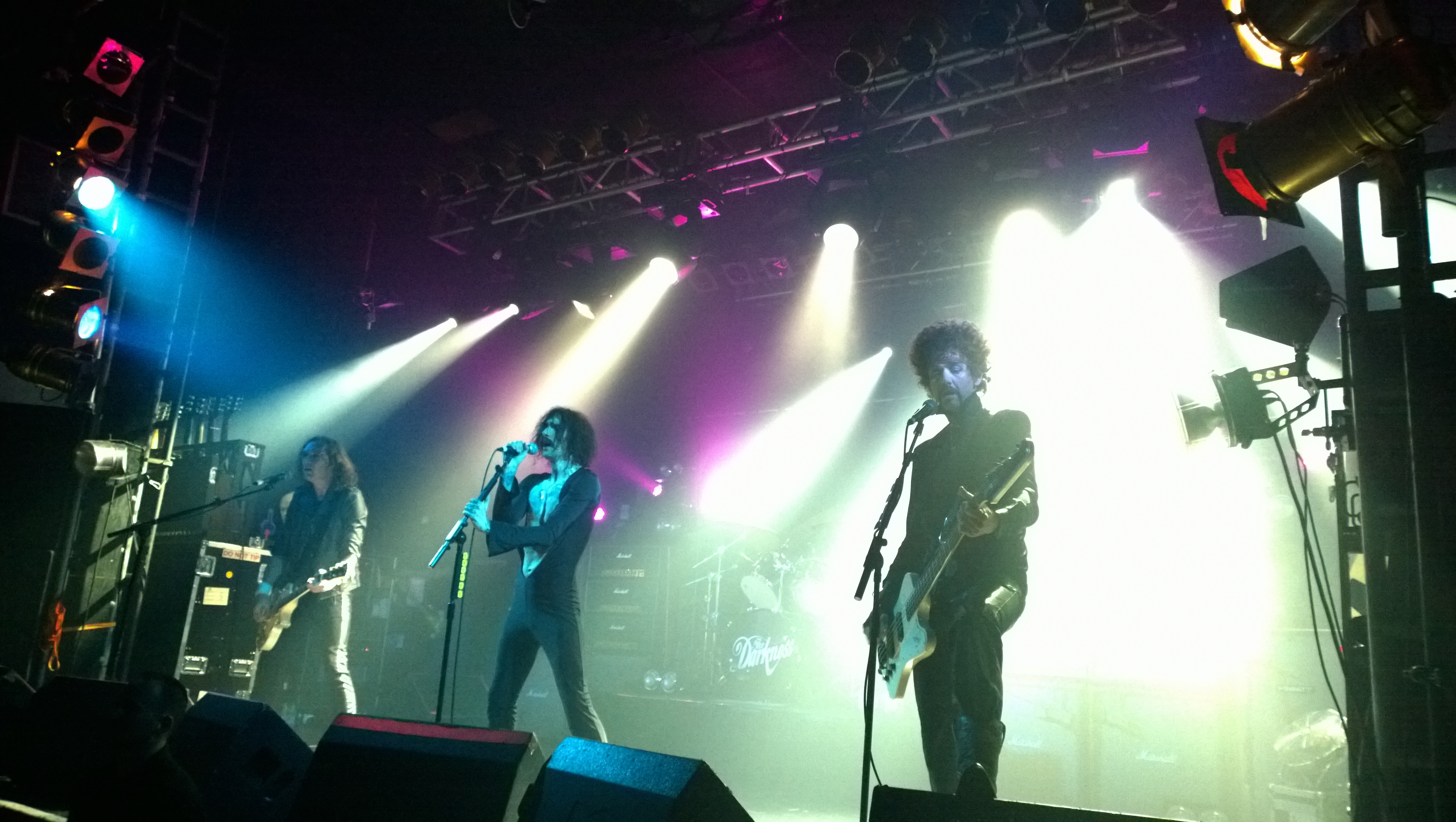 The Darkness, Camden Electric Ballroom